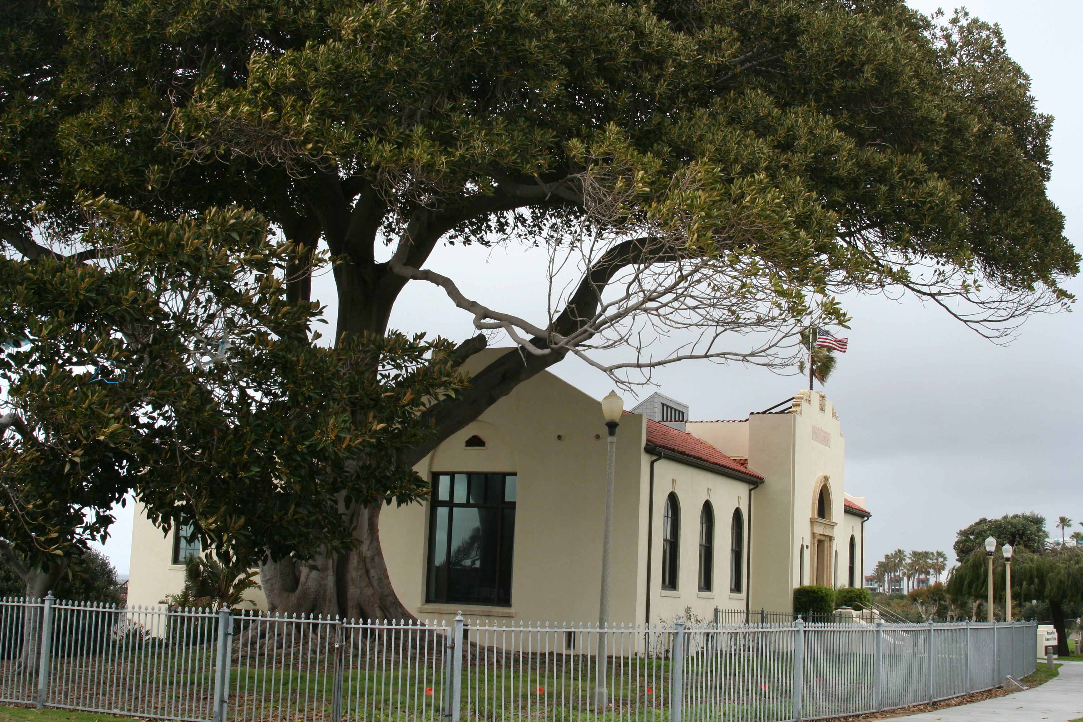 The original main library in Redondo Beach California from the Southeast including the Moreton Bay Fig Tree adjacent to it. Photo taken February 2010